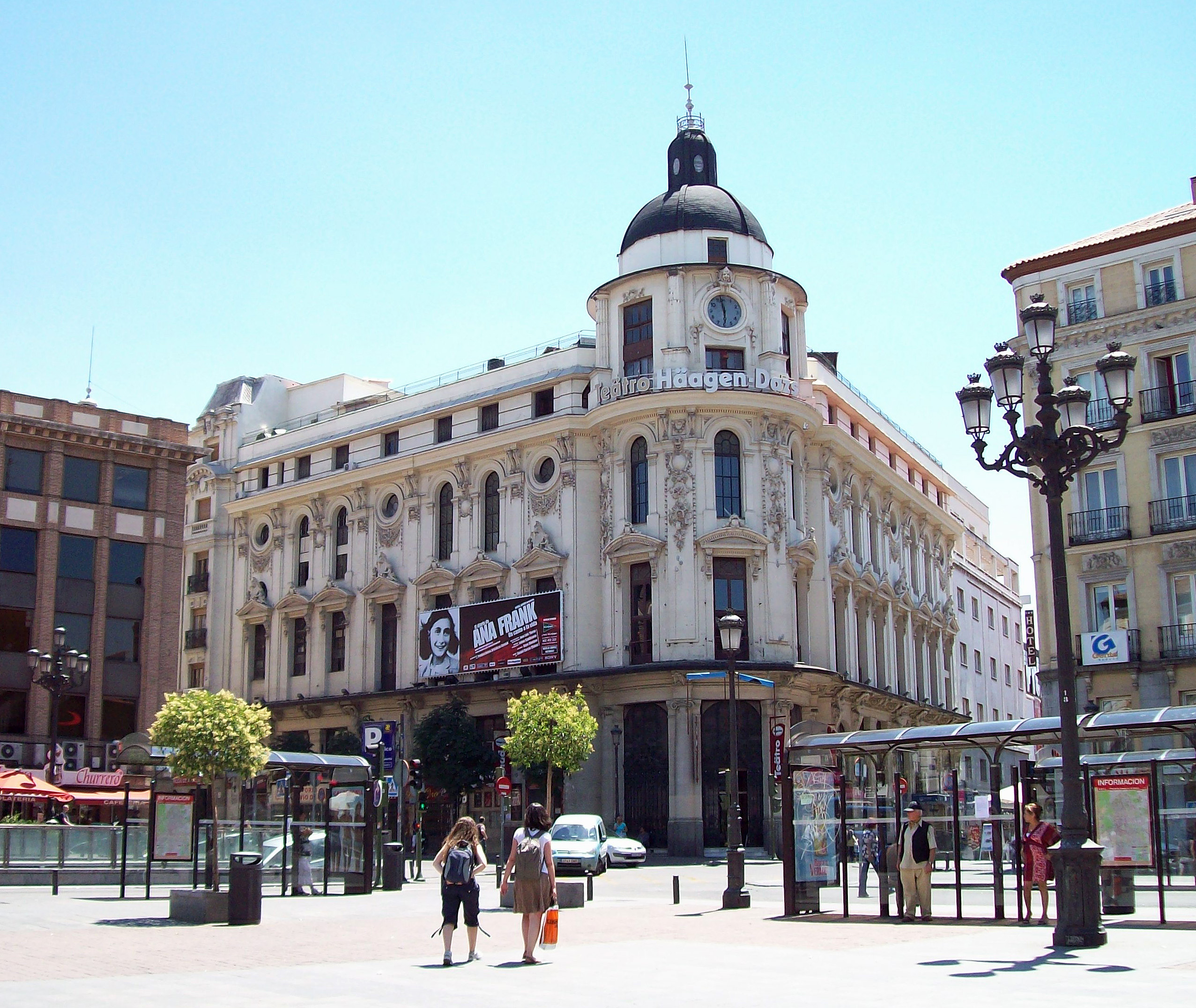 Teatro Calderón (theater) in Madrid (Spain), at the Plaza de Jacinto Benavente (square). Projected in 1915 by architect Eduardo Sánchez Eznarriaga and built from 1915 to 1917.